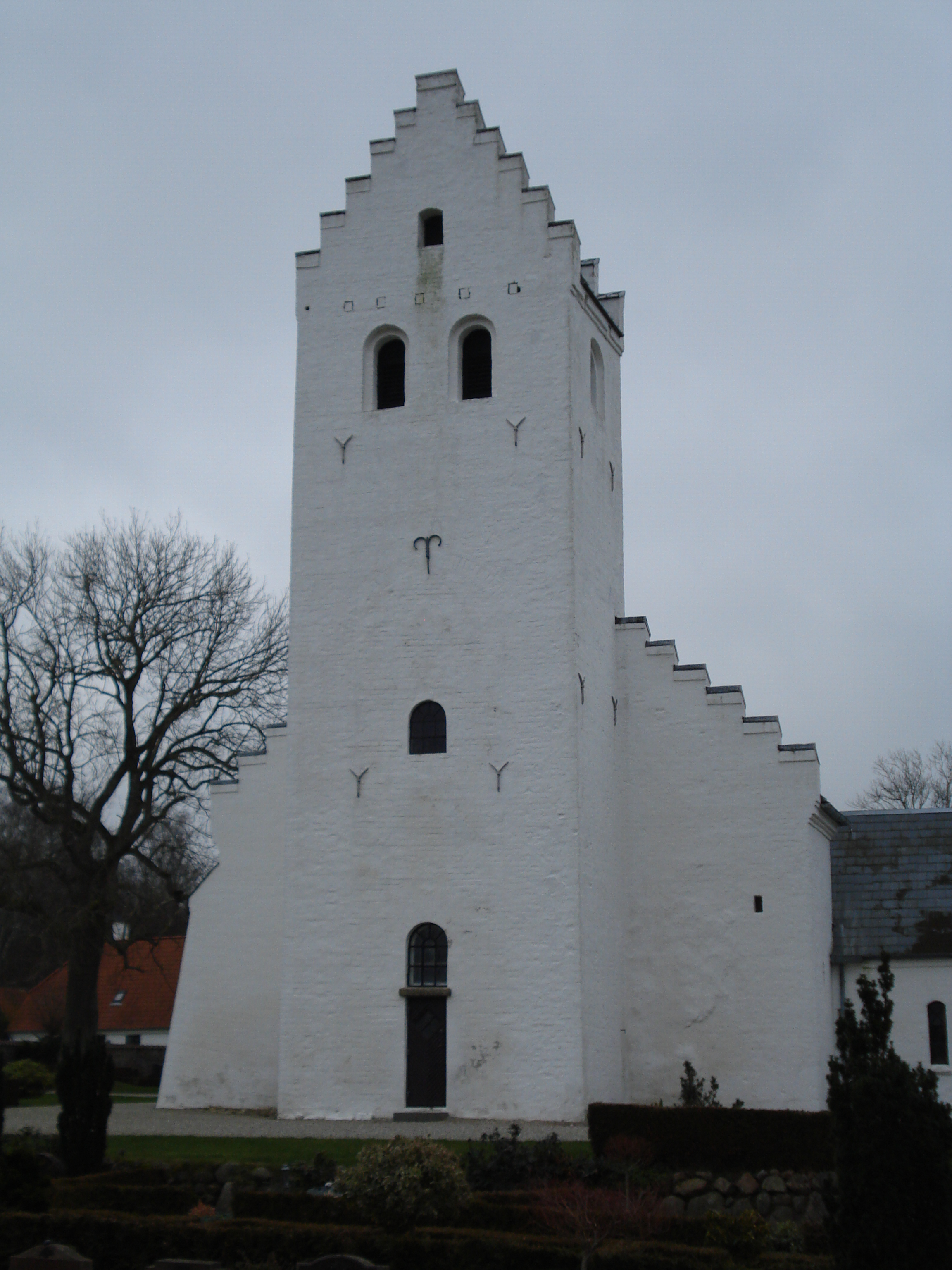 Bregnet Kirke (Bregnet Church), Jutland, Denmark. The tower